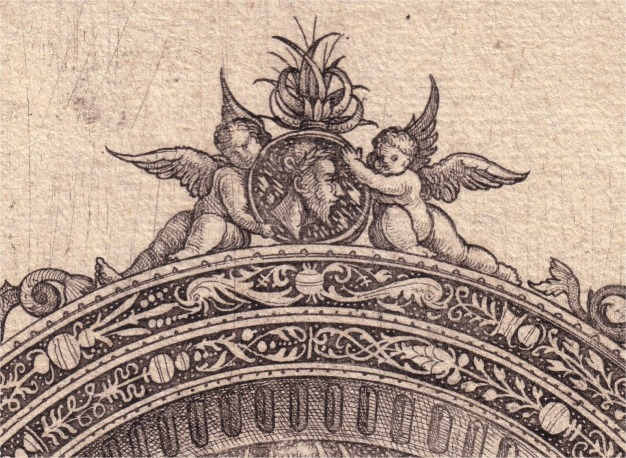 Detail - Etching “Altar tabernacle with the adulterous woman “ from Daniel Hopfer